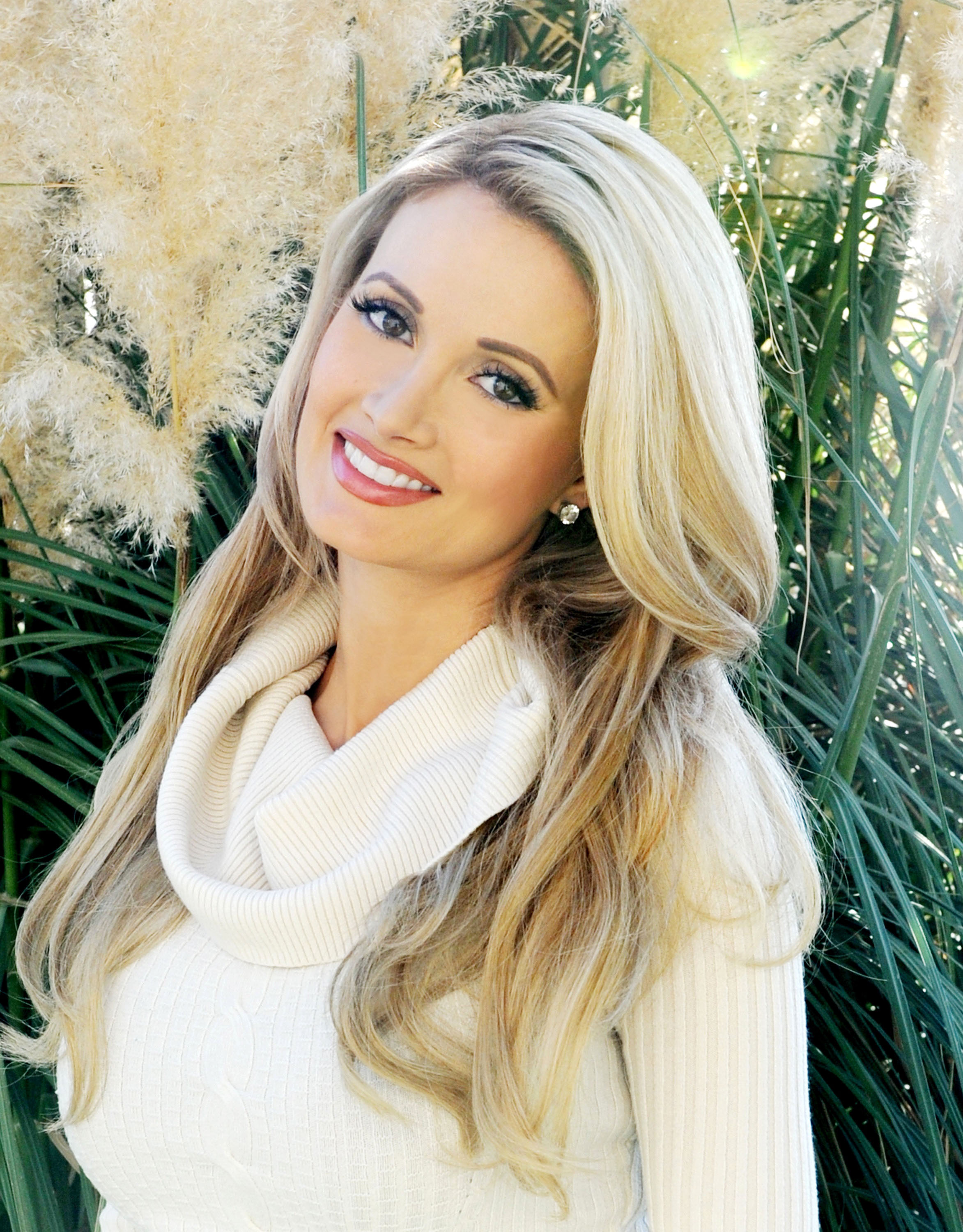 Celebrity Author Holly Madison